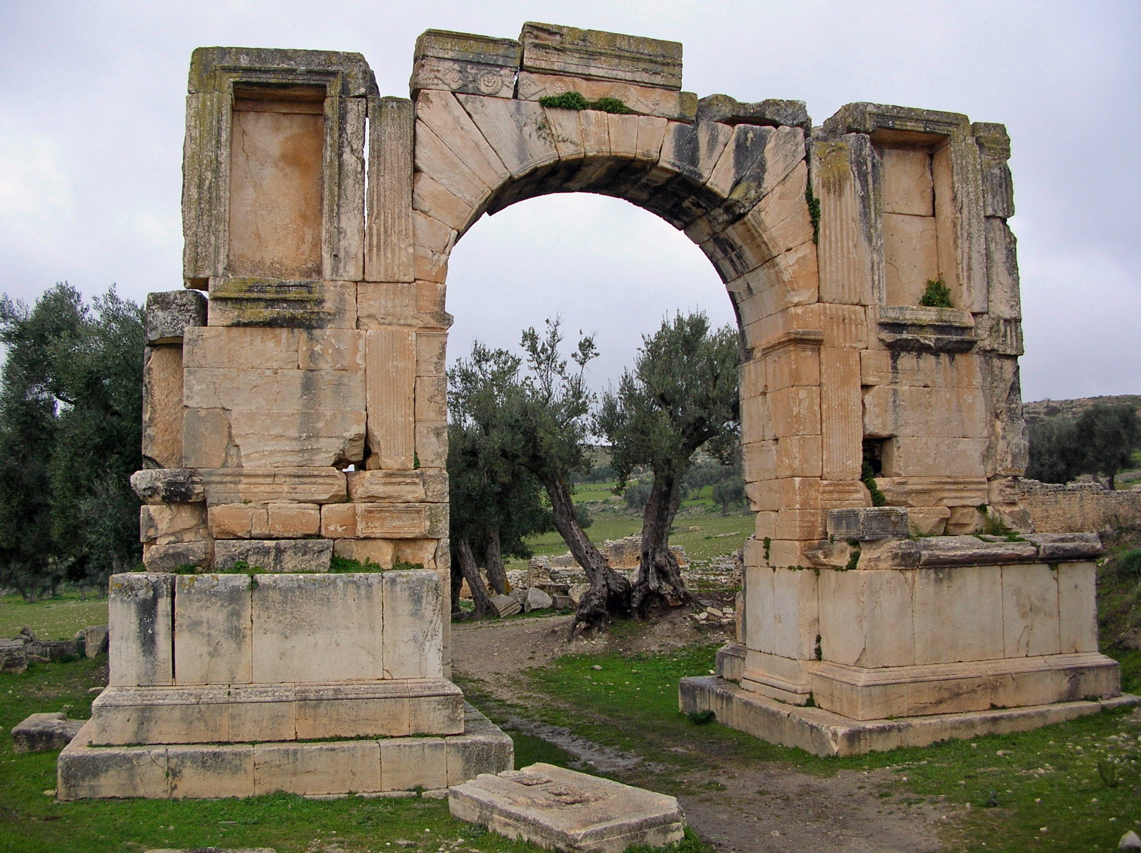 Arch of Alexander Severus, Dougga, Tunisia